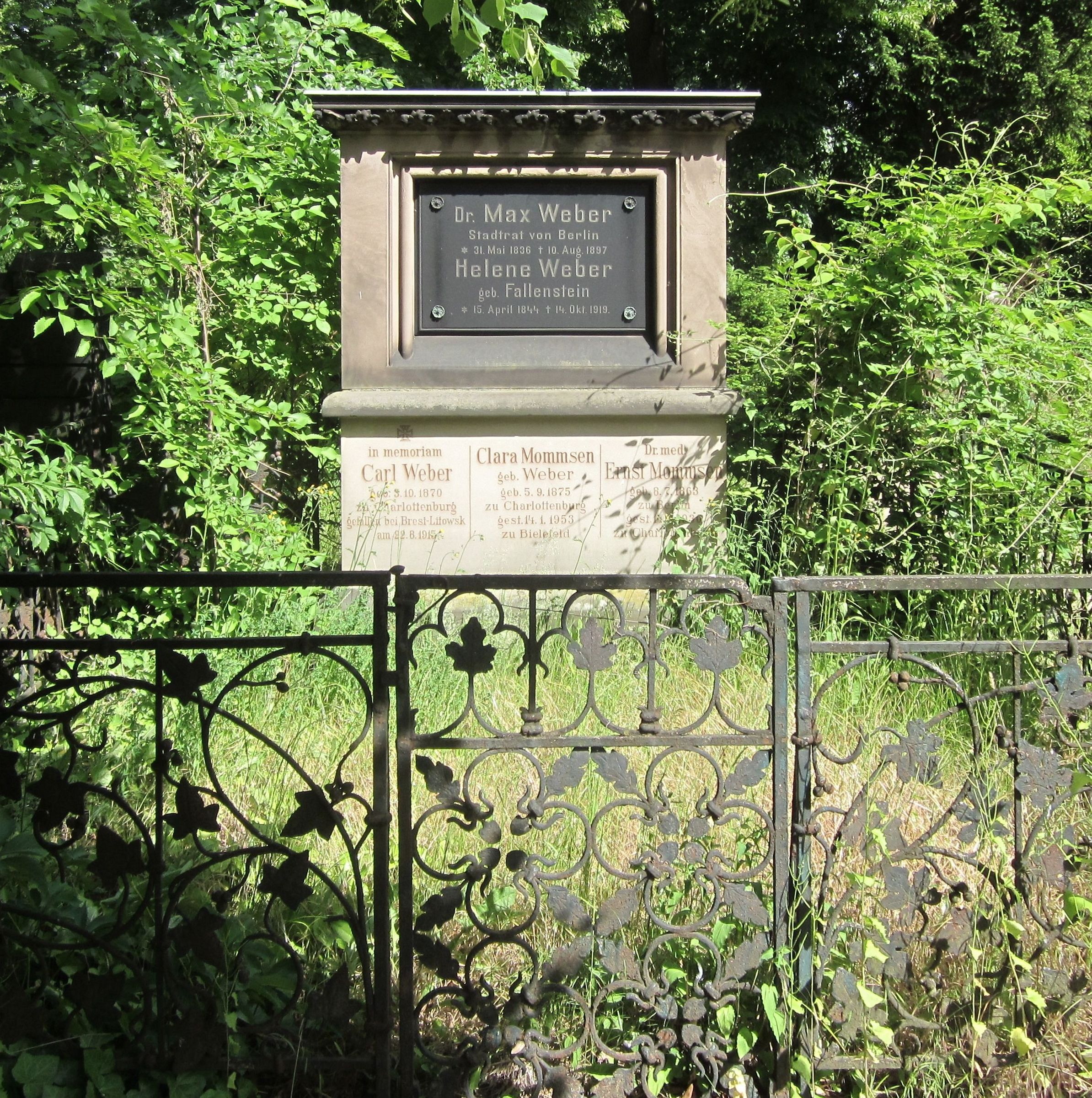 Family grave Weber on the Cemetery IV of the Jerusalem and New Church at Bergmannstraße No. 45-47 in Berlin-Kreuzberg. This is the final resting place of the jurist and politician Max Weber senior (1836-1897) and his wife Helene Weber, née Fallenstein (1875-1919), of their daughter Clara Mommsen, née Weber (1875-1953), and of Clara's husband, the doctor Ernst Mommsen (1863-1930), a son on the historian Theodor Mommsen. In addition, a plate on the gravestone remembers Max and Helene's son, the architekt Carl Weber (1870-1915), who died in WWI in Brest-Litovsk. However, two other sons of Max and Helene, the sociologists Max Weber jun. (1864-1920) and Alfred Weber (1868-1958) are buried on the Bergfriedhof cemetery in Heidelberg.